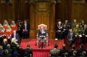 Governor-General reads the speech from the throne at the State Opening of Parliament.